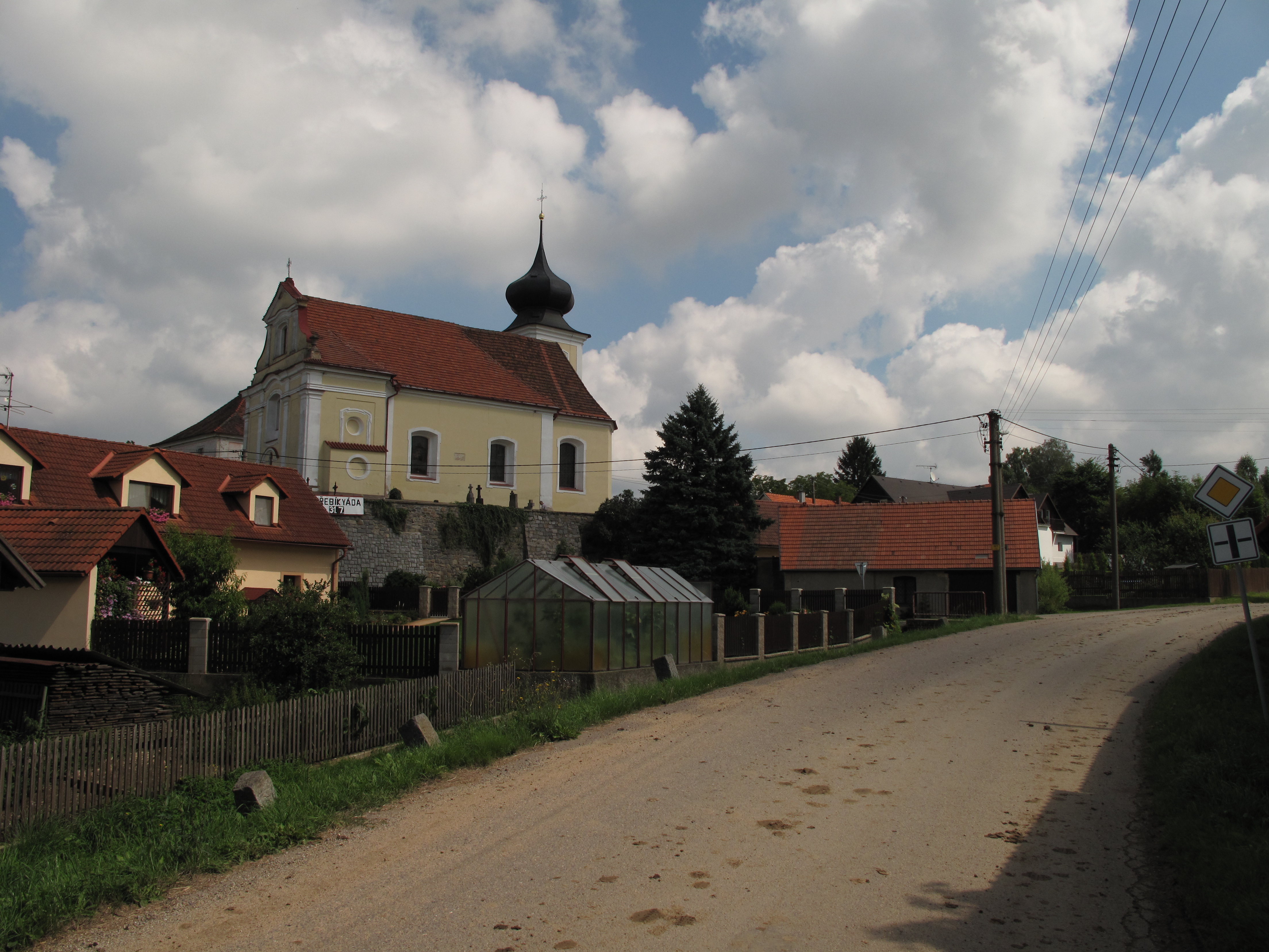 Church of St. Vavřinec as seen from the main road in Okrouhlice (Benešov), Czech Republic.